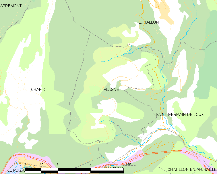 Map of French commune: Plagne Map commune FR insee code 01298.png